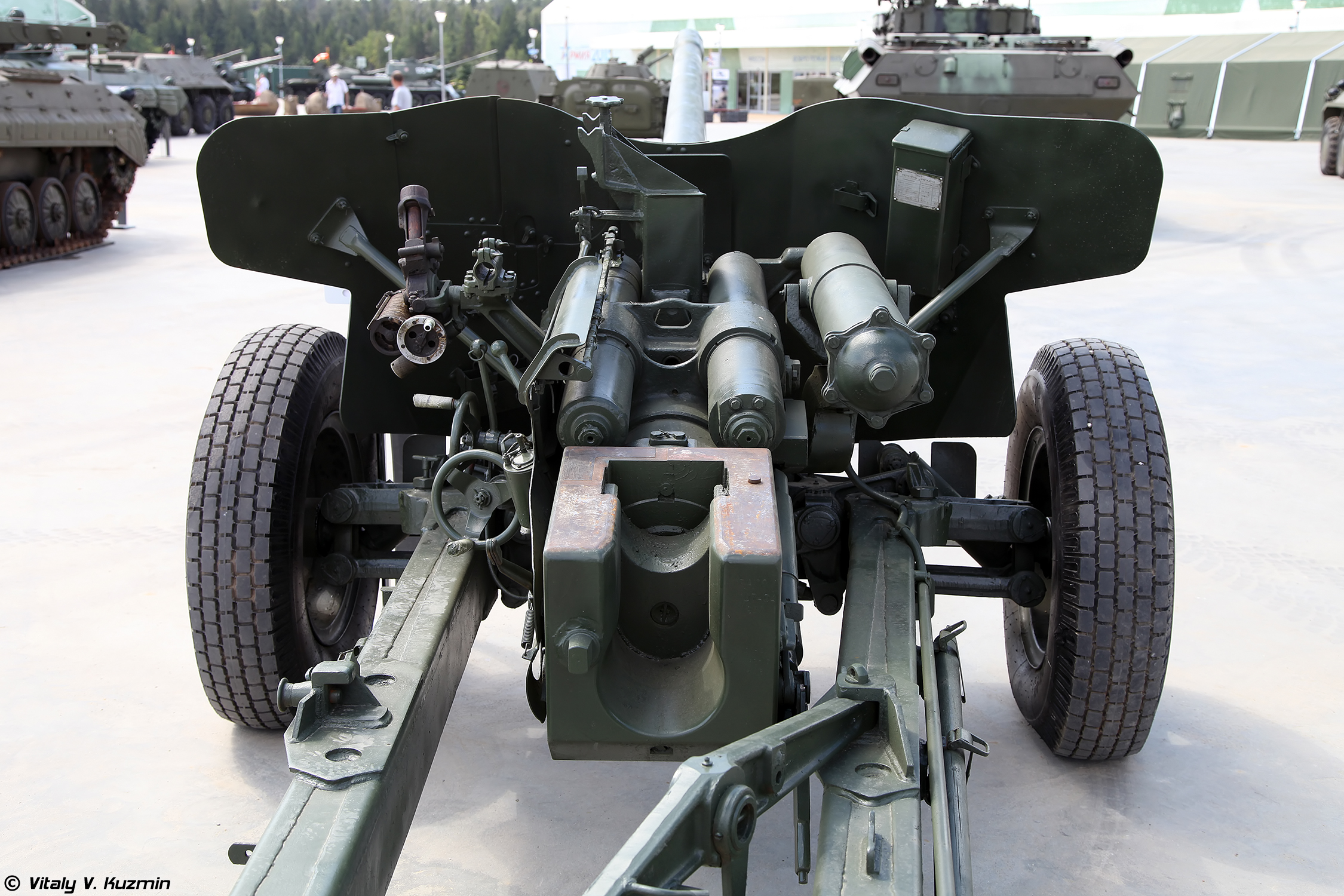 100mm antitank gun MT-12